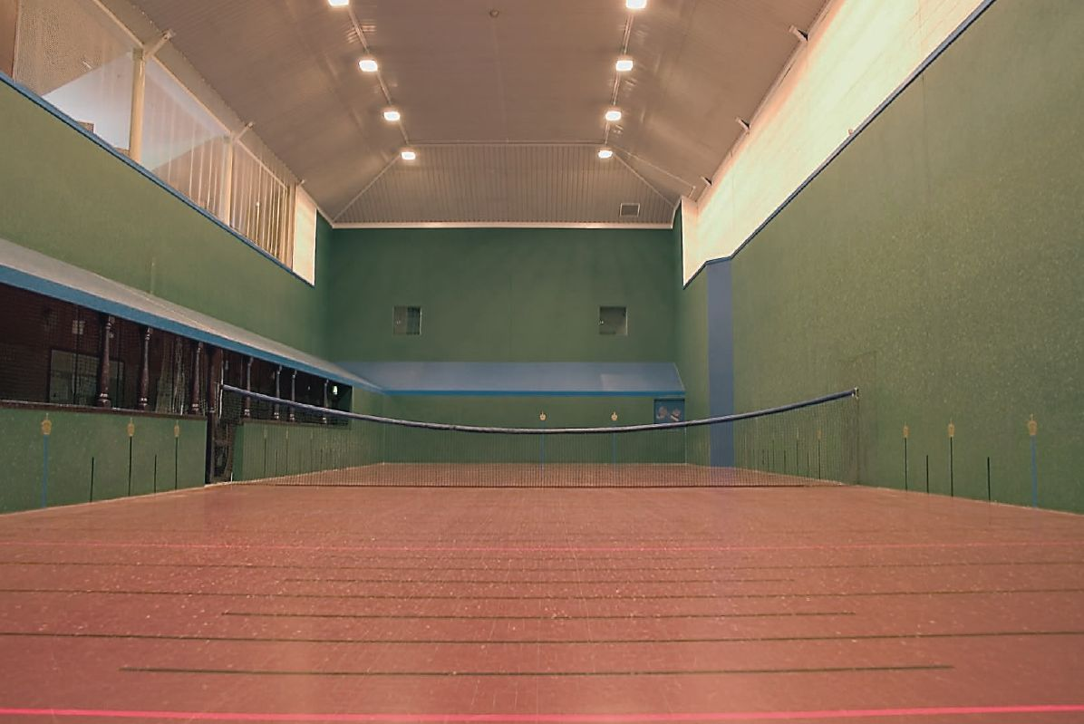 Bristol Bath real tennis court in England.